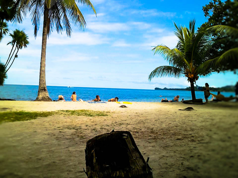 Beach in Izabal, Guatemala